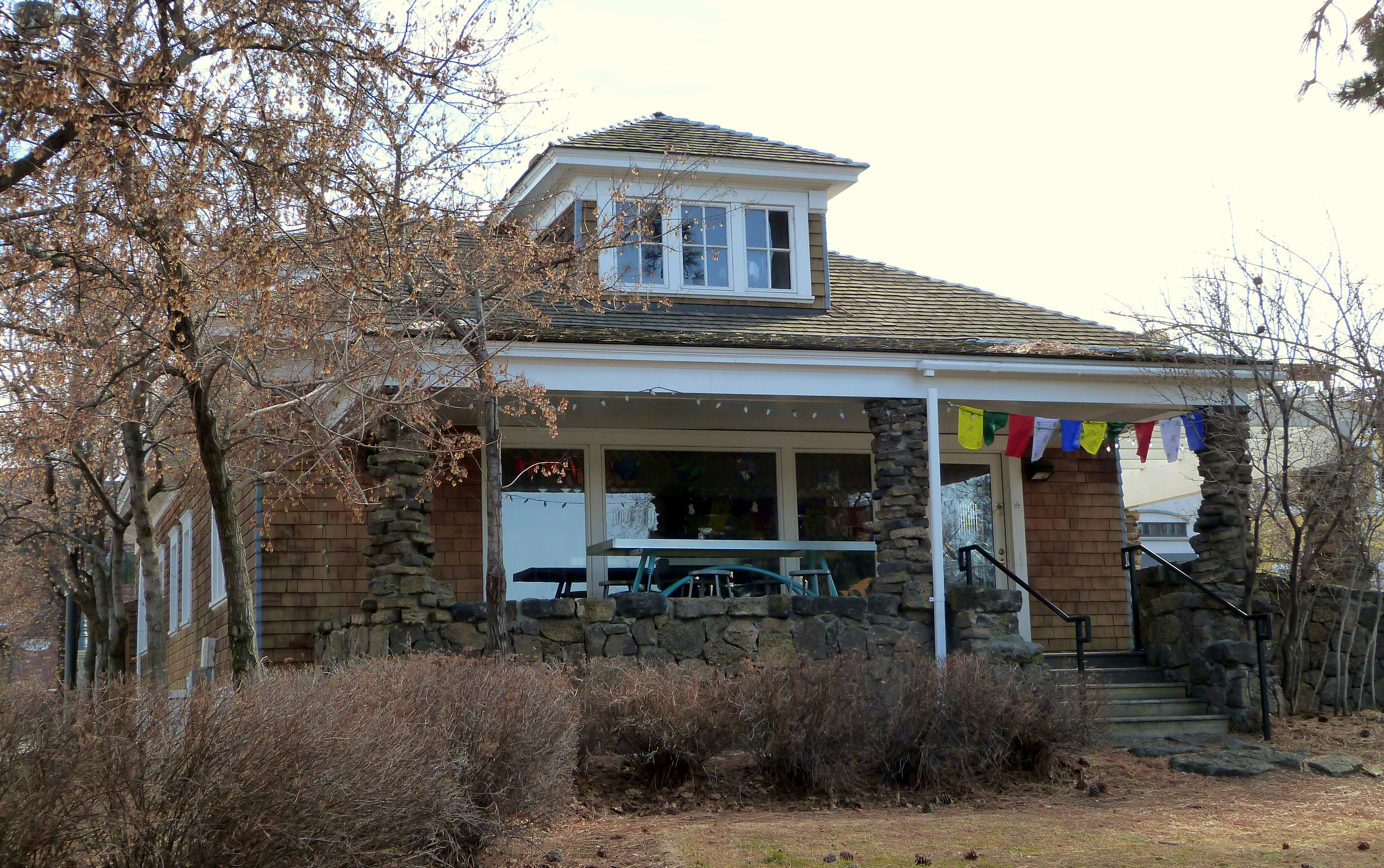 The historic Goodwillie-Allen House (built 1904), located at 875 Northwest Brooks Street in Bend, Oregon, United States, is listed on the US National Register of Historic Places.